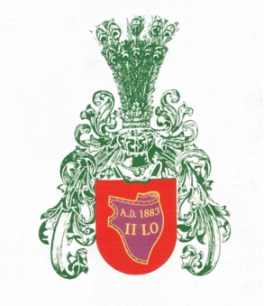 The official coat of arms of II Sobieski High School in Cracow